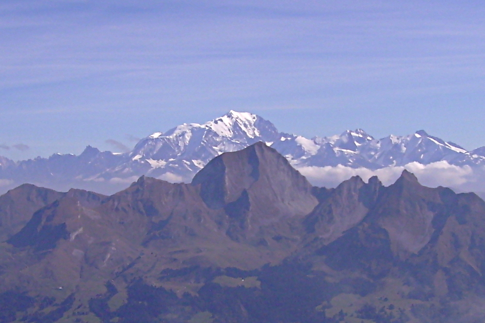 West Face of mount Charvin (in Aravis range), with Mont Blanc in background.